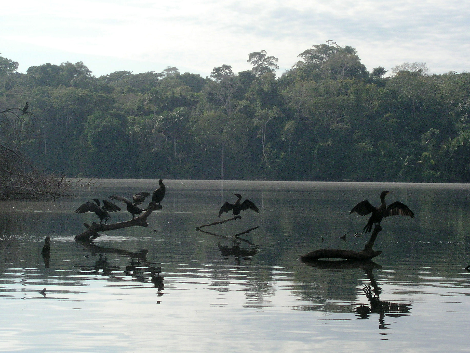 Birds drying their feathers, Lago Sandoval, Puerto Maldonado, Peru